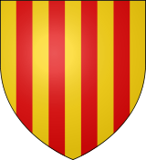 Coat of arms of the Provence Counts Blazon: Or four pallets gules.